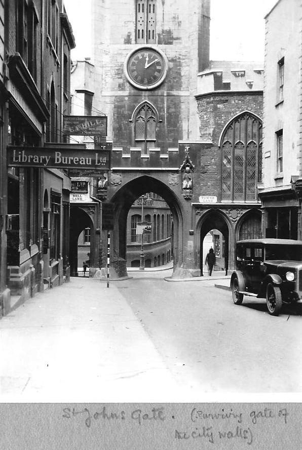 St Johns Gate, Bristol.